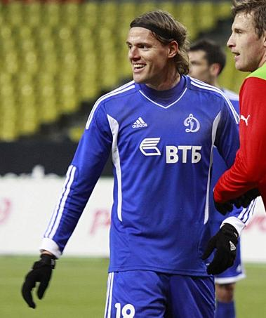 Tomislav Dujmović with FC Dynamo Moscow.